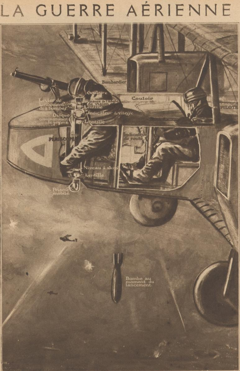 How a Gotha throws bombs.